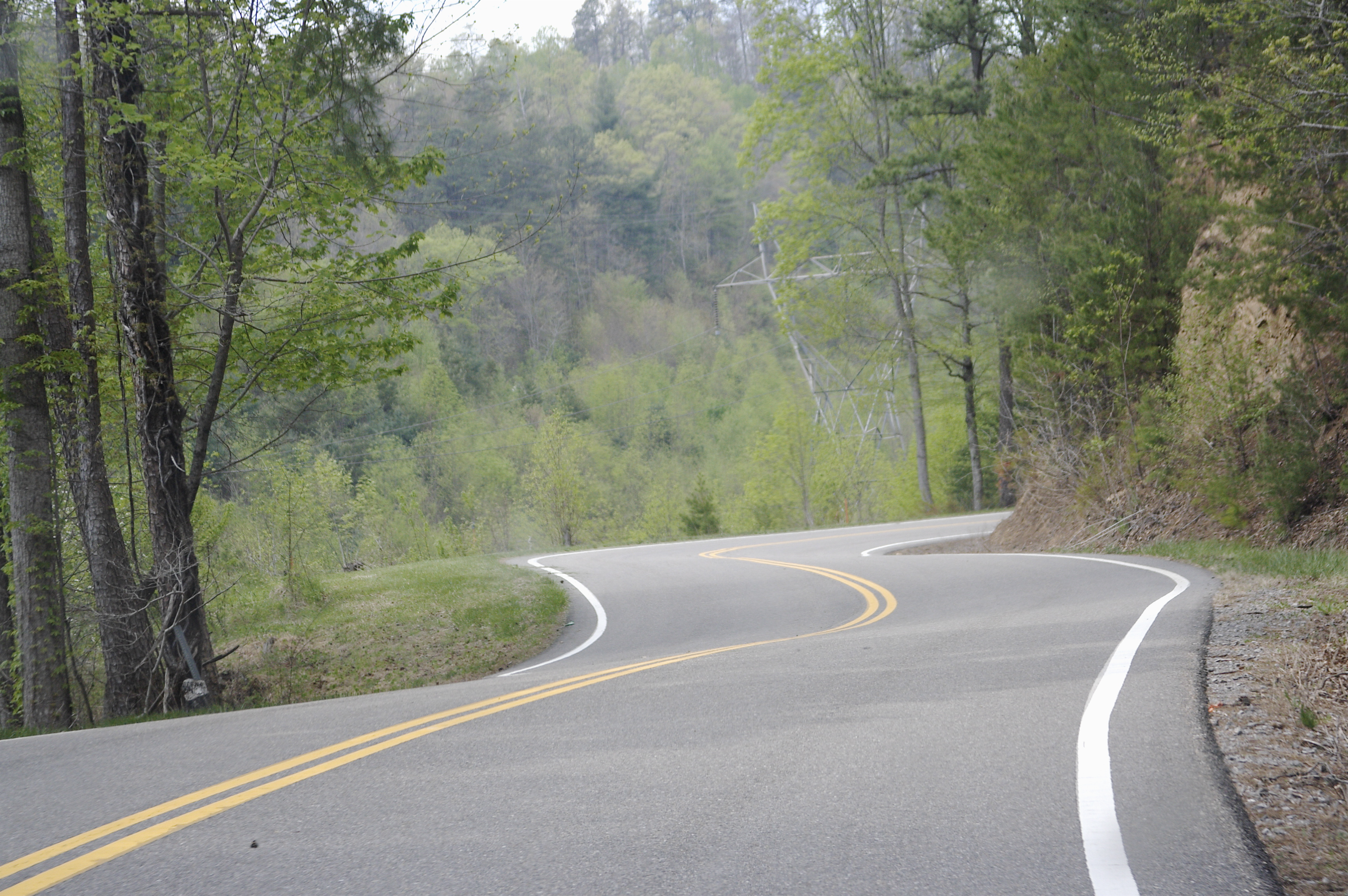 A tranquil ribbon of road. The only thing missing is the whine of turbo in second gear, the revs of the engine, and the tires sticking to the road. No squealing, just gripping.